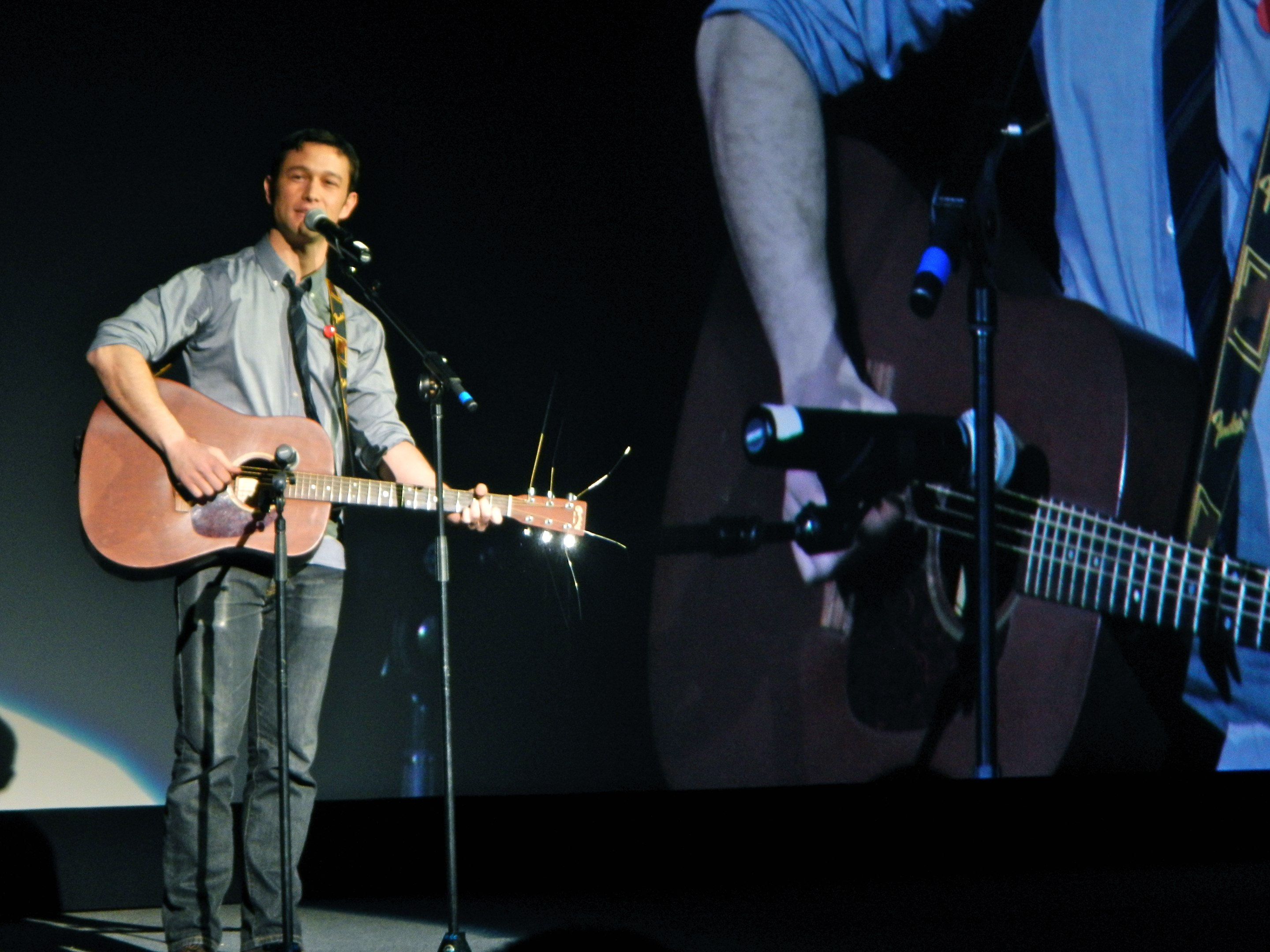 "Hit RECord" at Sundance